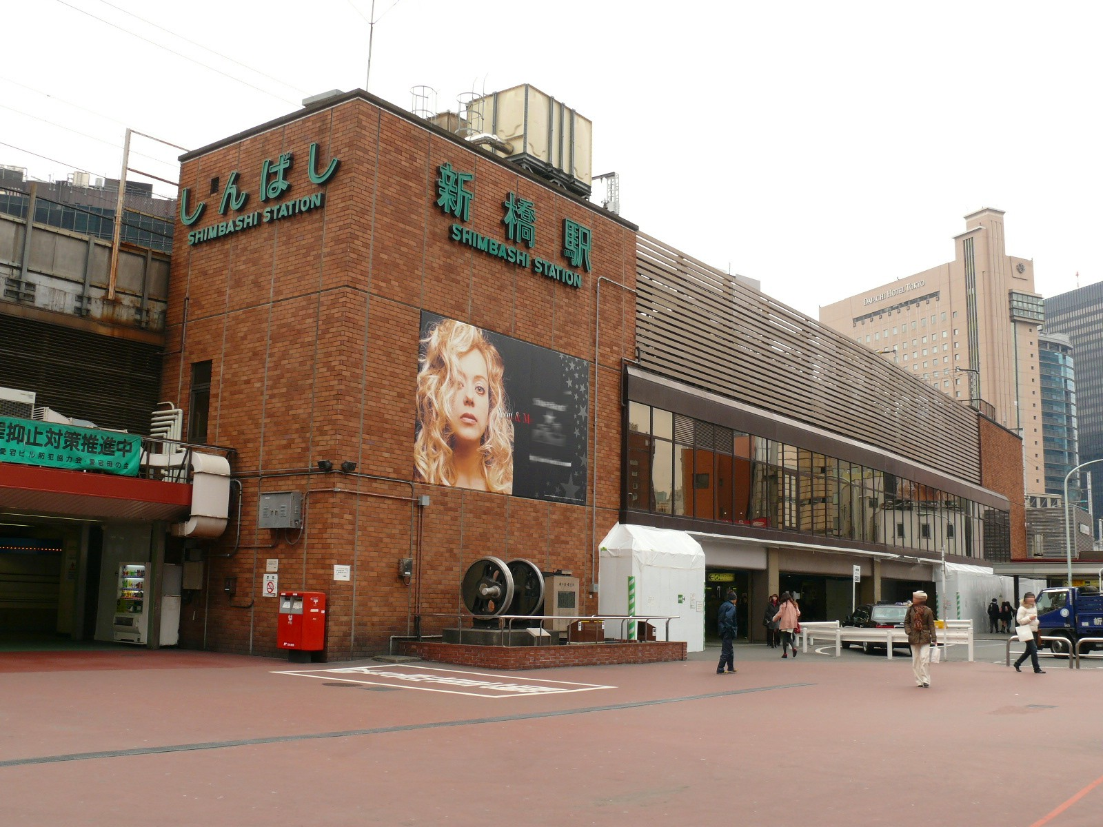 East Japan Railway Shimbashi-Station-East-exit(Japan,Tokyo). Taking a picture from station plaza. See also Ja:新橋駅 for more information(written in Japanese). JR新橋駅の東口。 駅前広場より撮影。